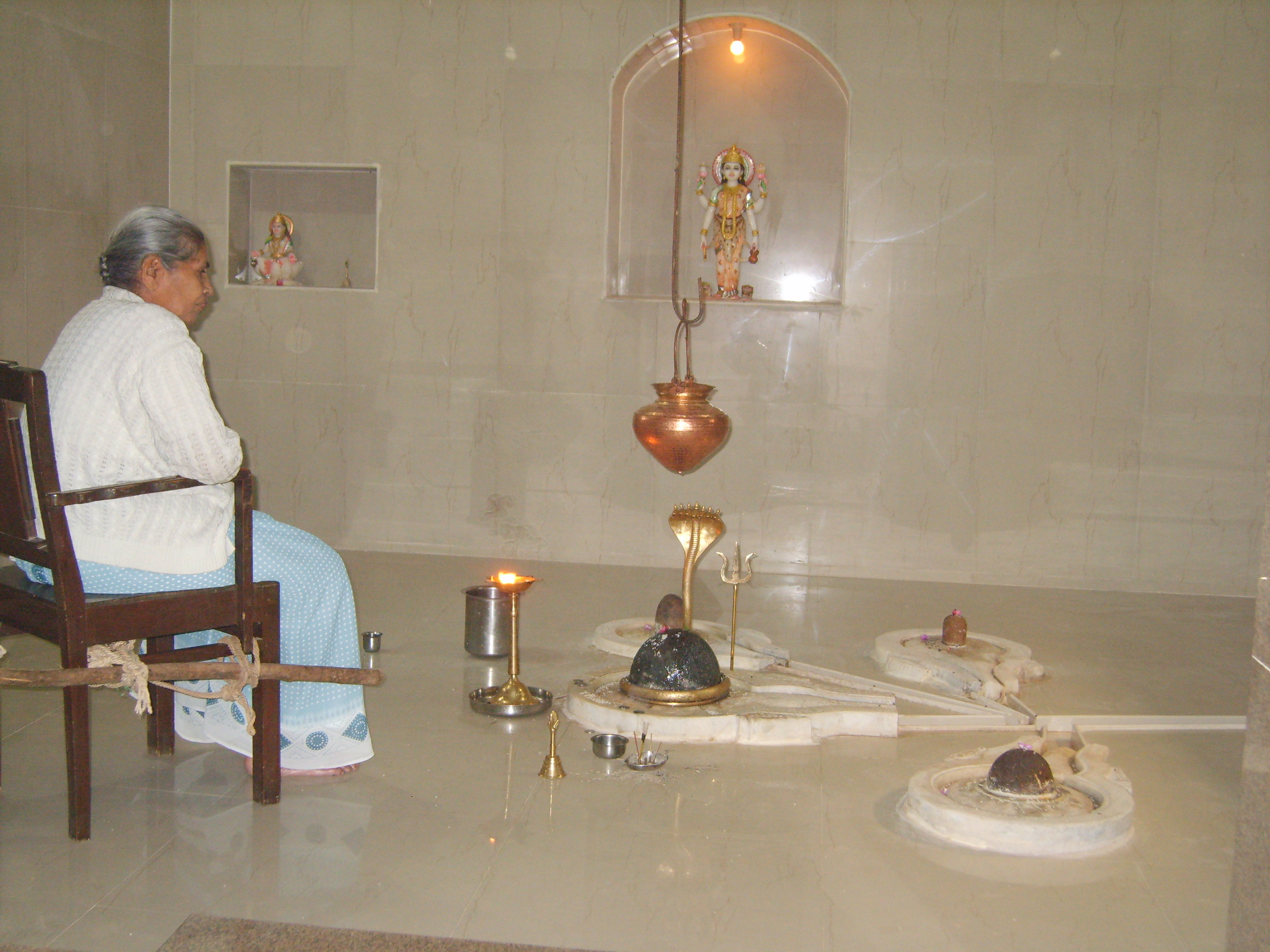 Nilkant Mahadev, Isnav